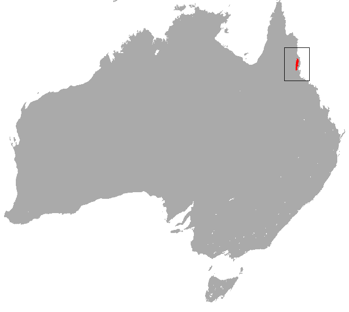 Atherton Antechinus (Antechinus godmani) range